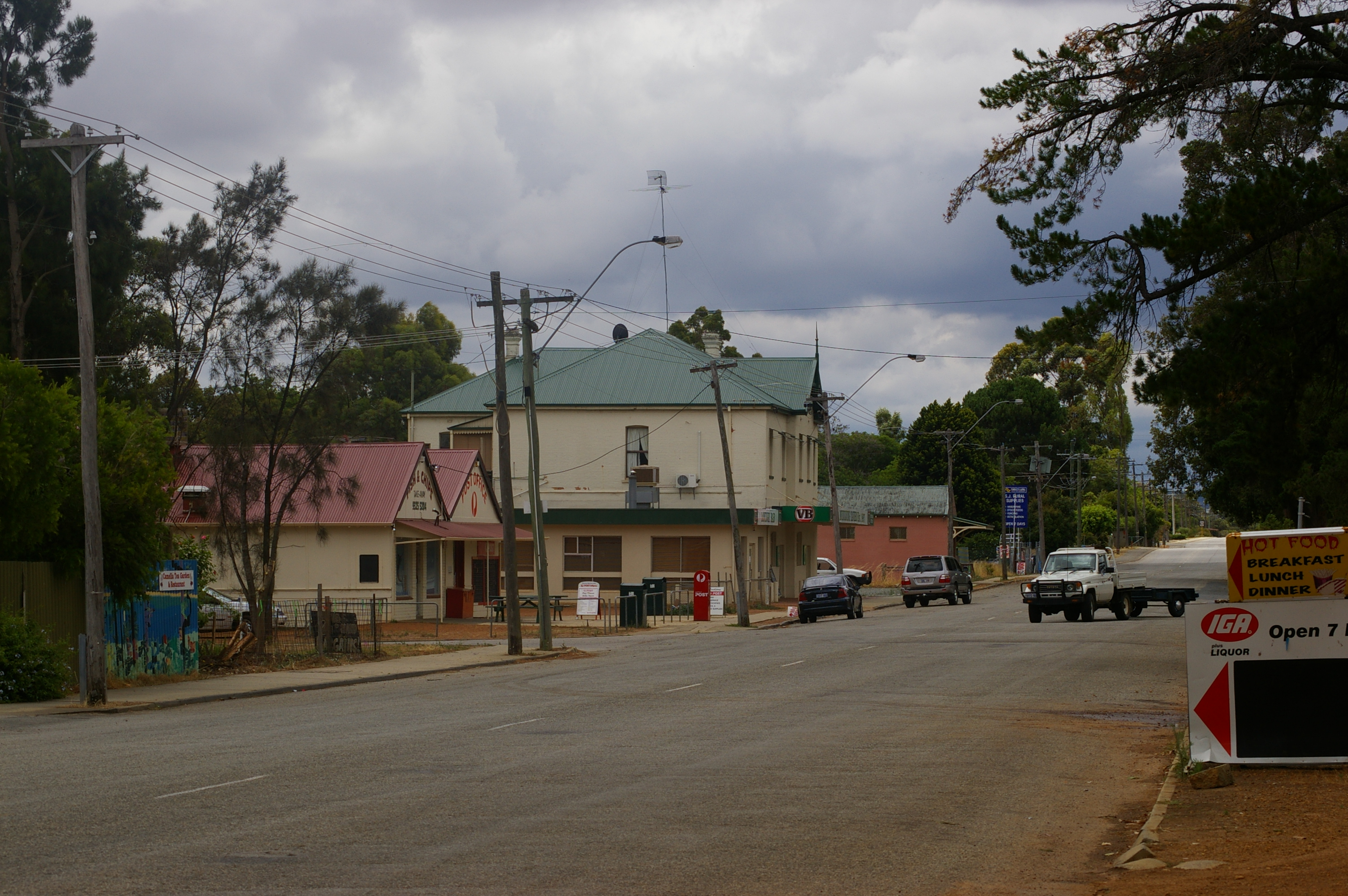 Paterson st Mundijong (main st) rail line is to the right of image looking - north east